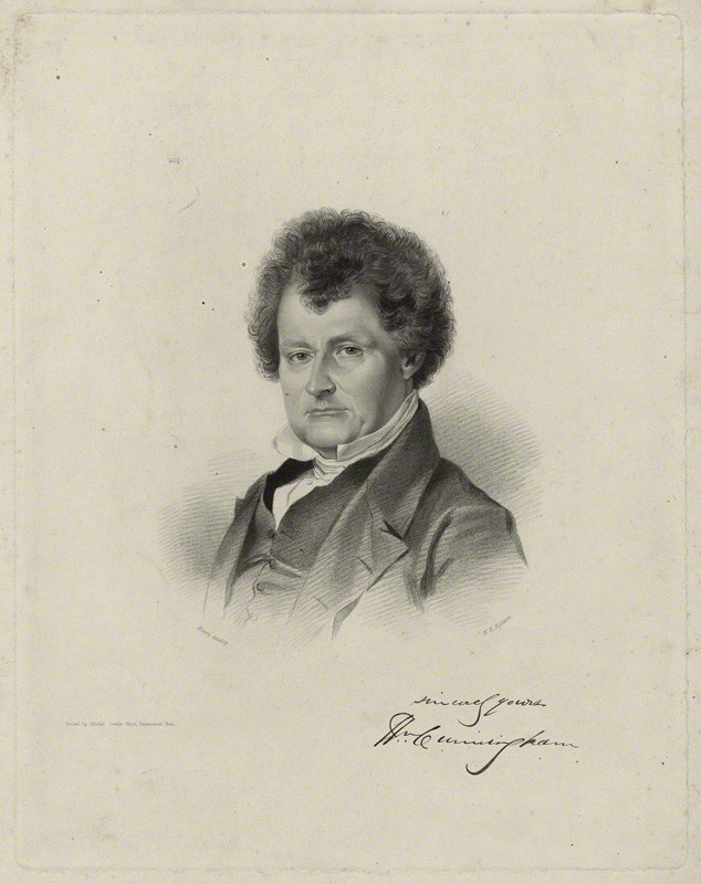 by William Henry Egleton, after Henry Anelay, stipple engraving, mid 19th century